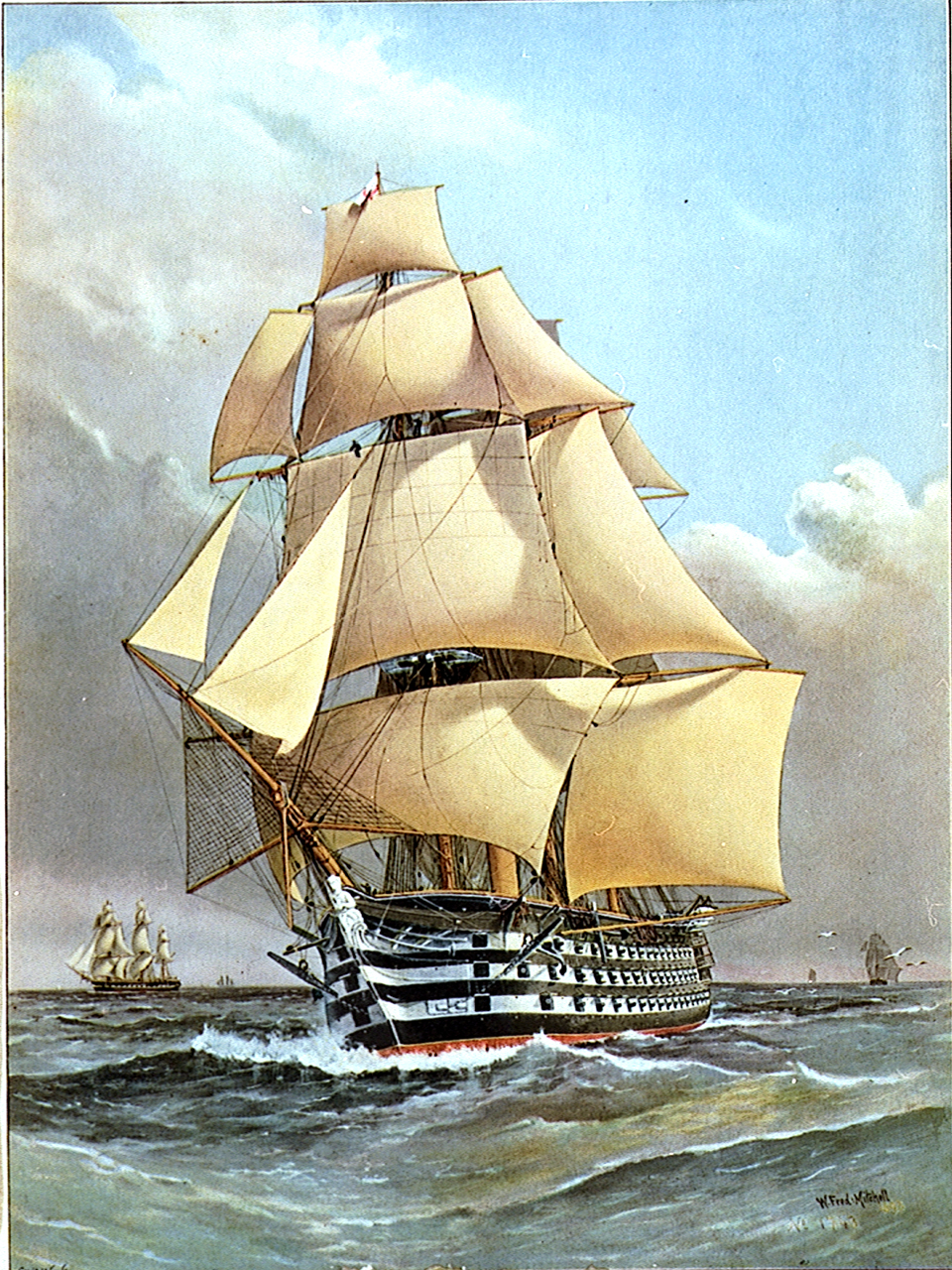 Past - 1859 Her Majesty's Ship Victoria on her last voyage (from the picture by W Fred Mitchell) Print